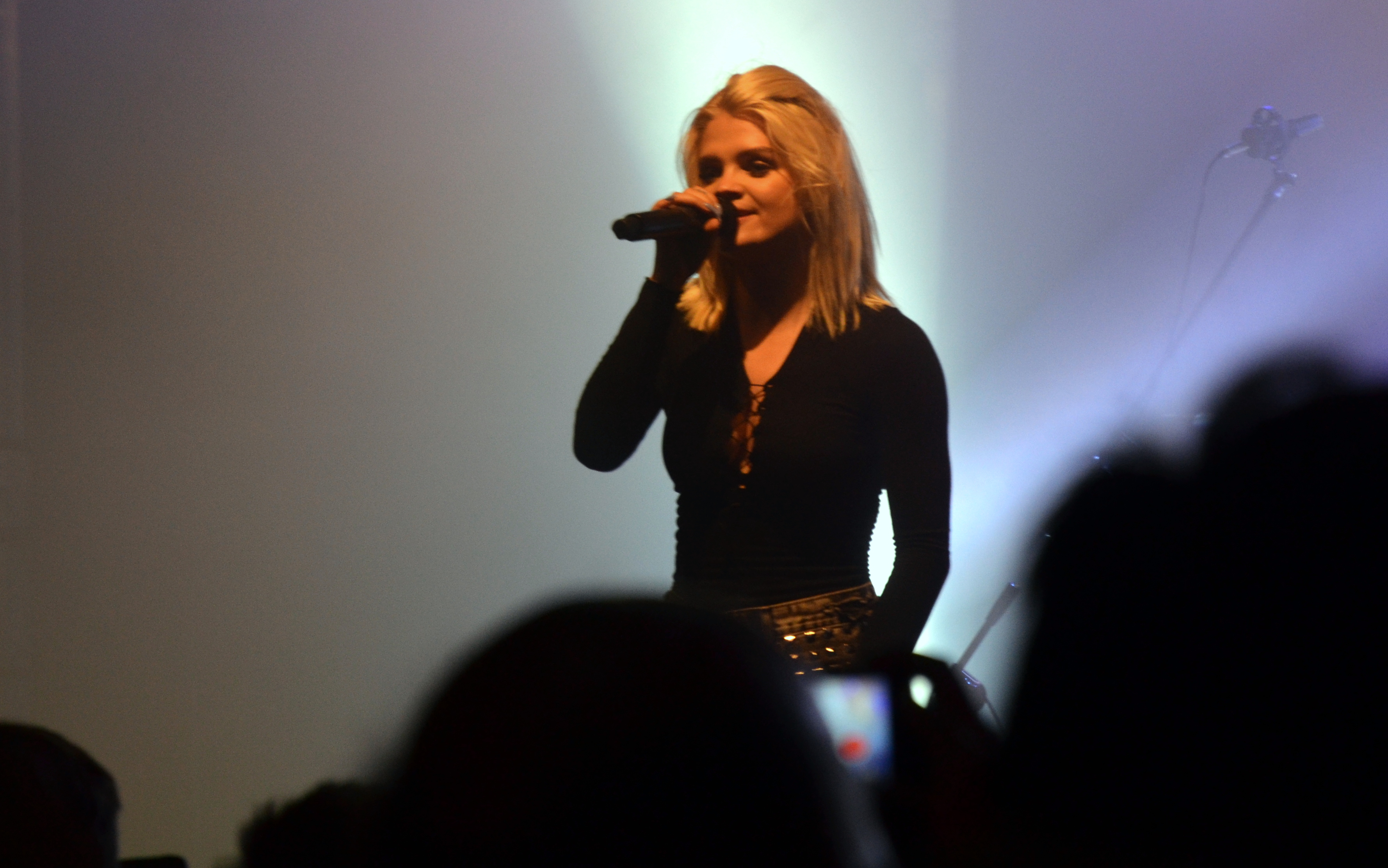 Margaret (singer)